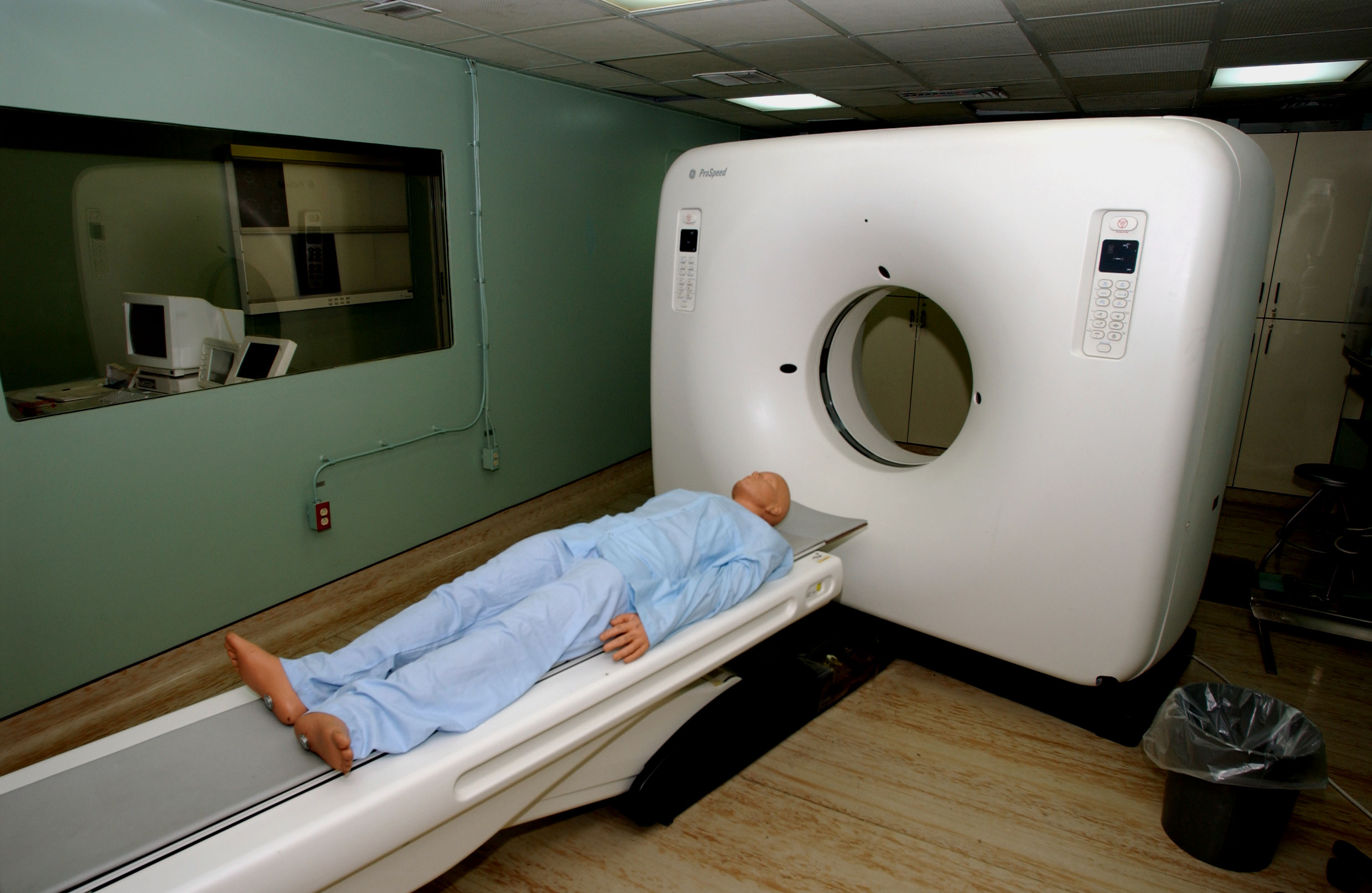 At sea aboard USNS Comfort (T-AH 20) Mar. 9, 2003 -- The ship's Computerized Axial Tomography, (CAT), Scan is capable of locating and imaging internal injuries. Comfort is currently mobilized in support of Operation Enduring Freedom. U.S. Navy photo by Photographer’s Mate 1st Class Kevin H. Tierney. (RELEASED)